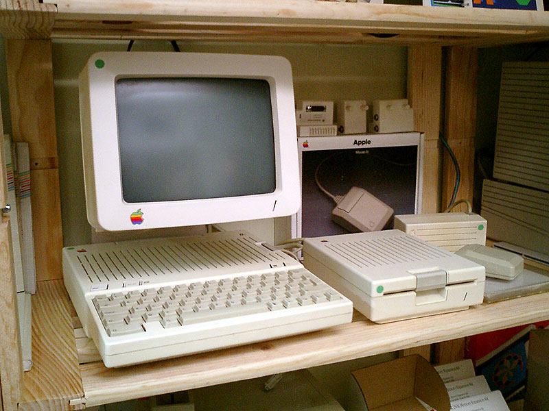 Apple IIc setup.